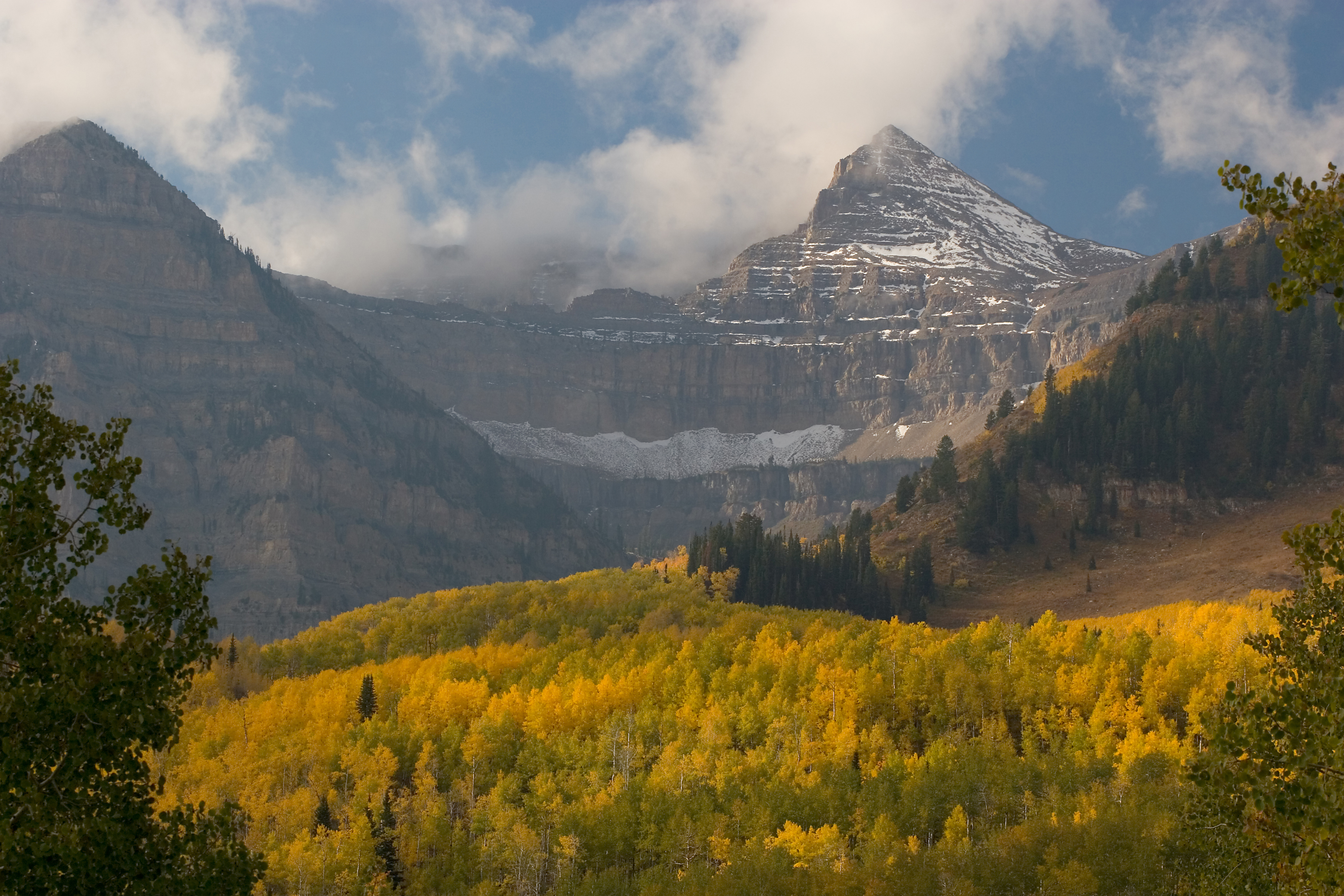 Photo By Bruce Tremper